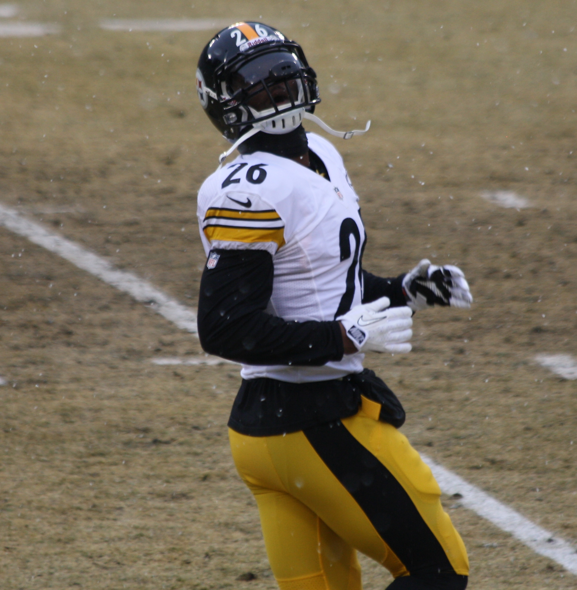 Pittsburgh Steelers player LeVeon Bell during warmups.